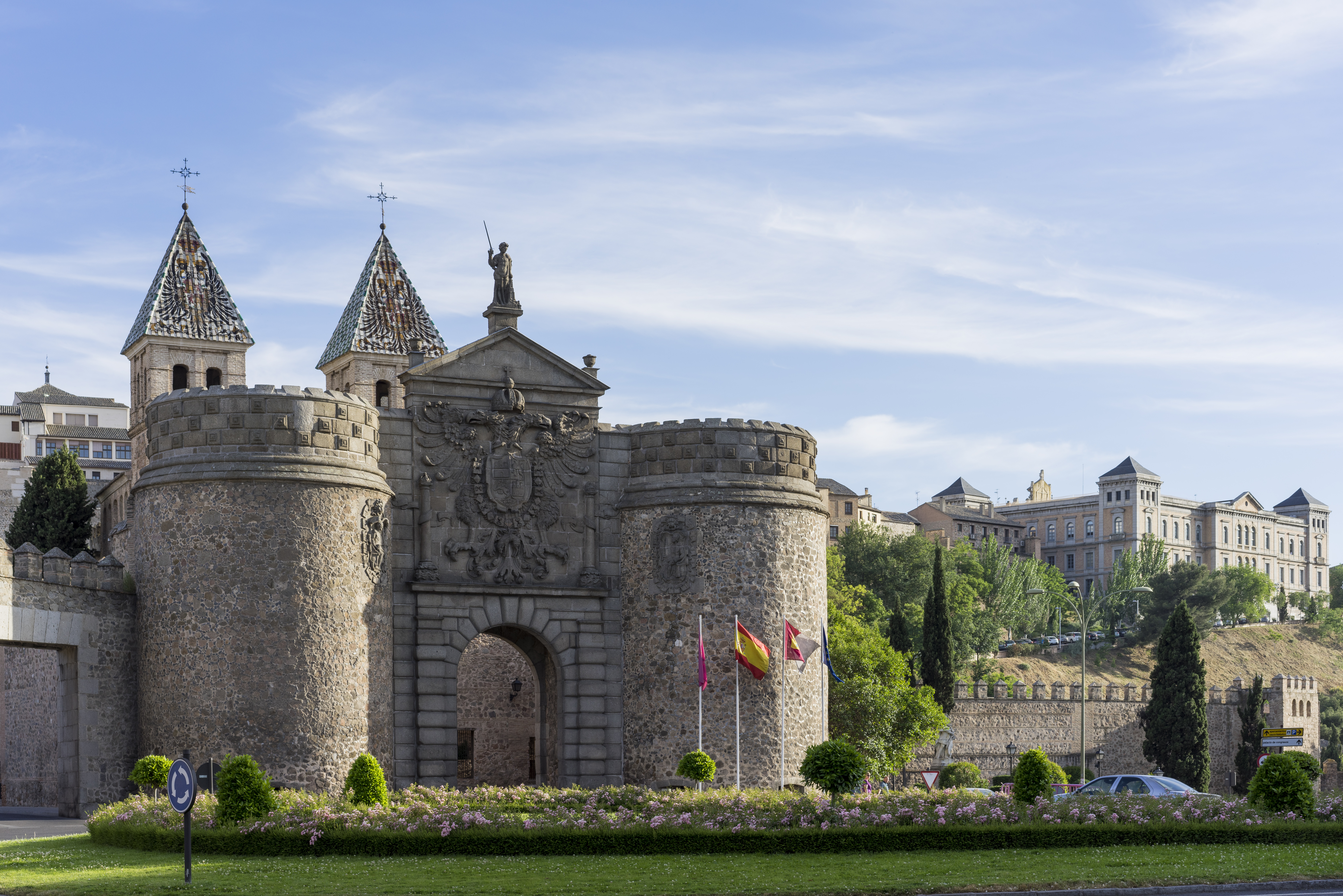 Puerta de Bisagra toledo spain 2014